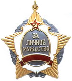 Russian Order Of Personal Courage Award (1992-1995)